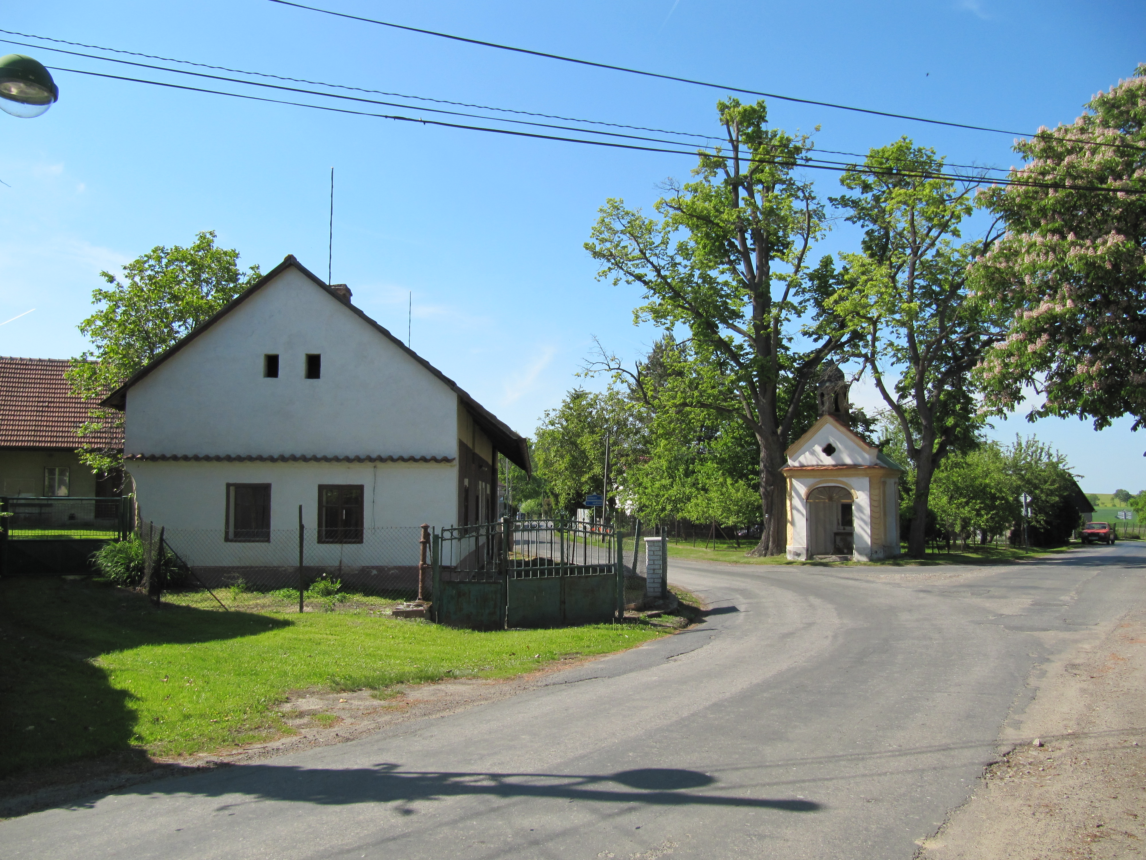 Bečváry in Kolín District, Czech Republic, part Hatě. Chapel of St. Wenceslas from 1841.